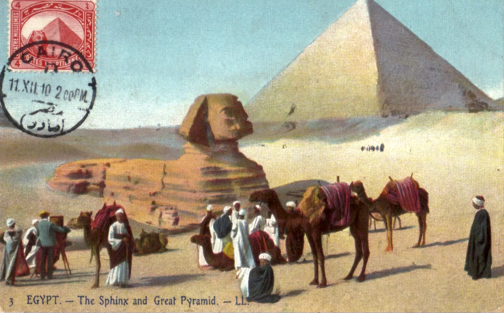 One of the earliest maximum cards depicting the Great Sphinx and Pyramid of Cheops. A TCV card franked with the Egyptian stamp of 1906 (Mi # 43 / Yt # 40). Postmark: Cairo, Post Office, 12/11/1910